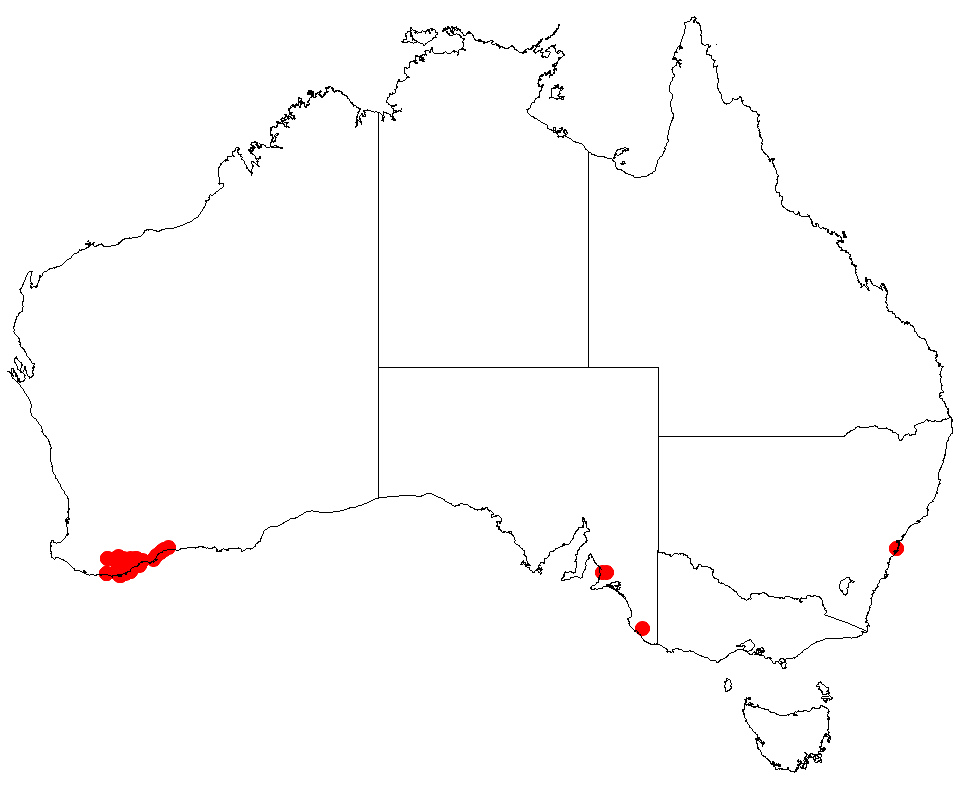 Hakea cucullata Occurrence data downloaded from Australasian Virtual Herbarium on 22 November 2018 using